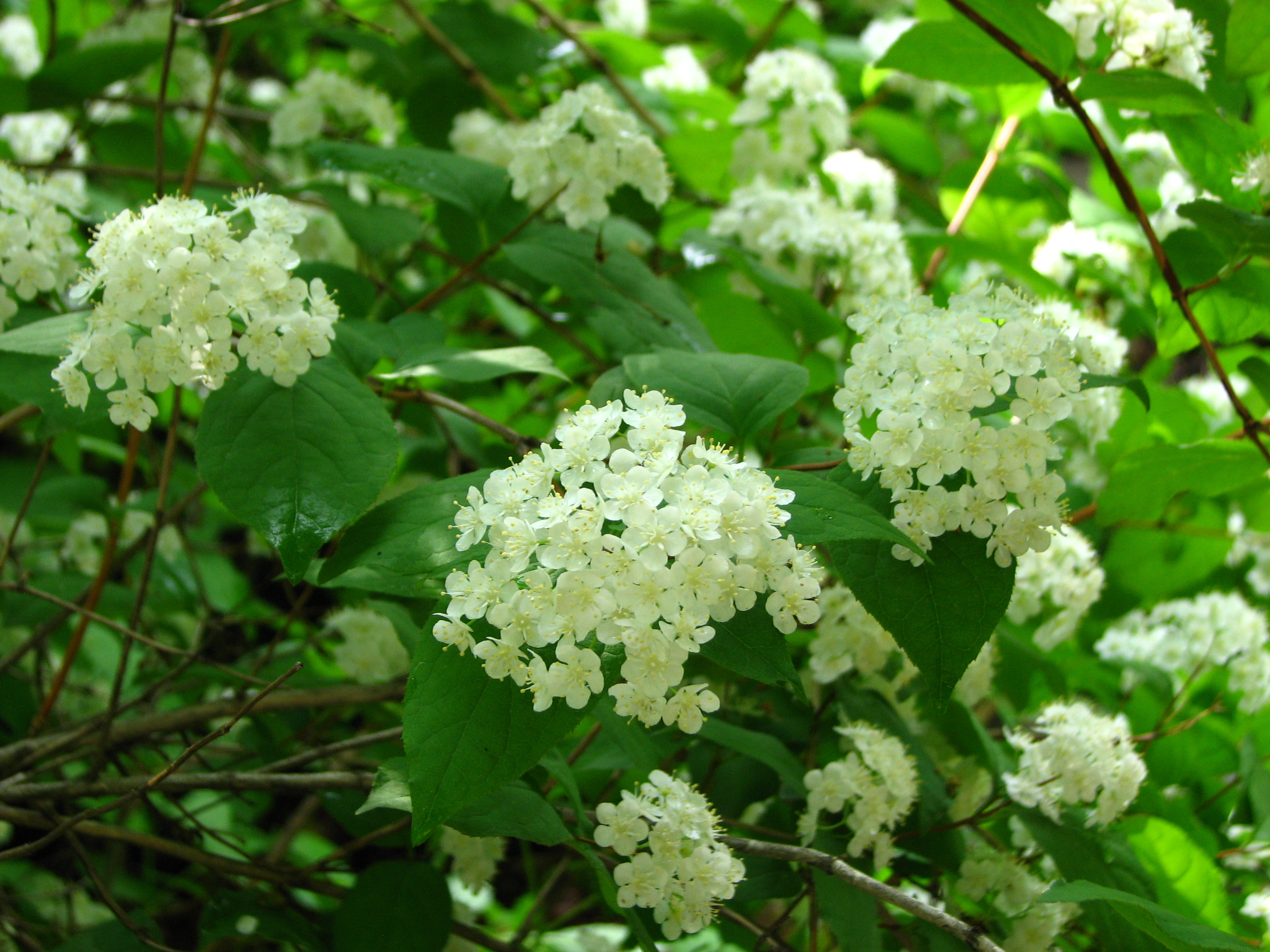 Deutzia parviflora var. amurensis in the Botanical Garden of Moscow State University (the Alpinarium).